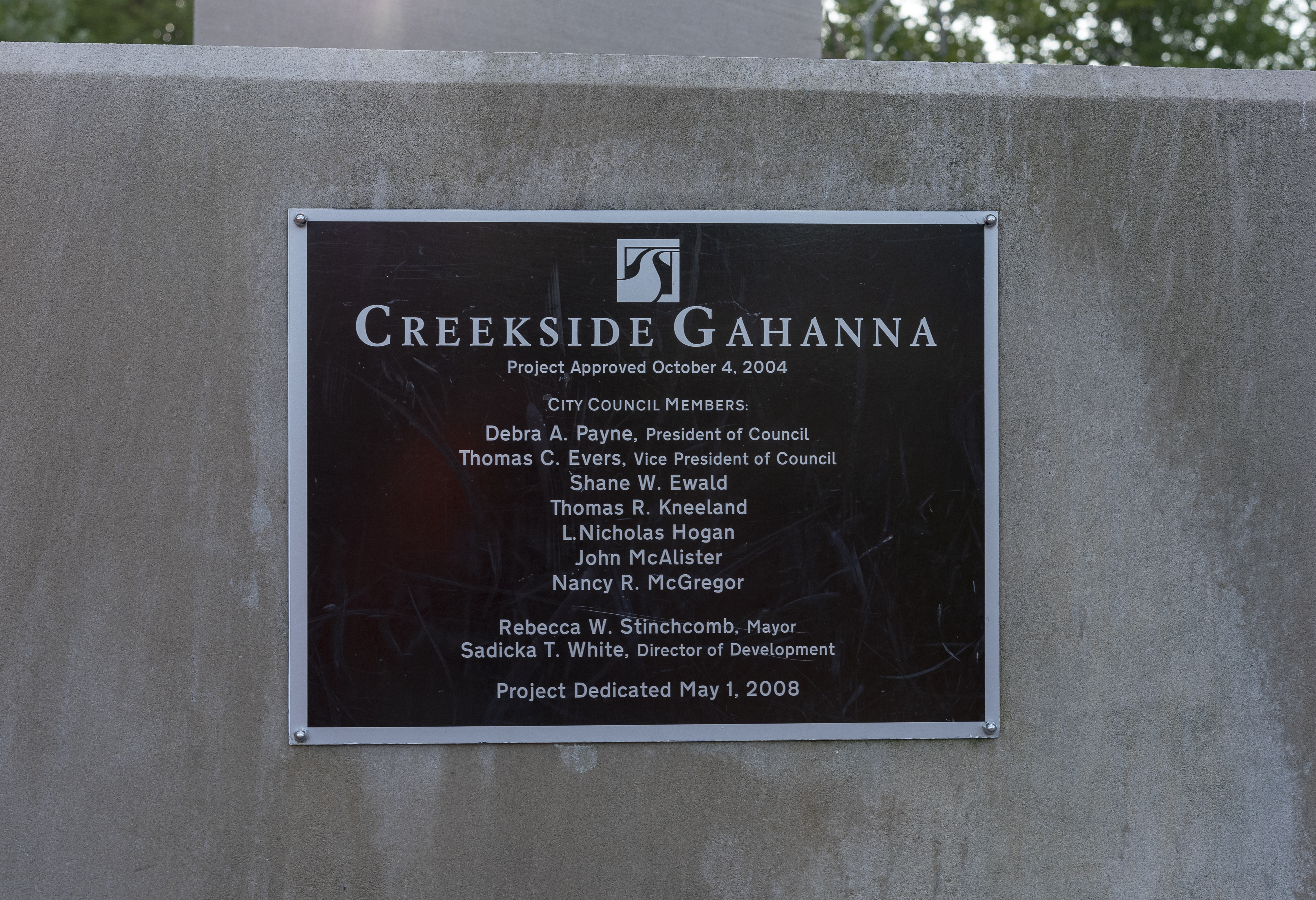 A plaque commemorating the dedication of Creekside Gahanna on May 1st, 2008.